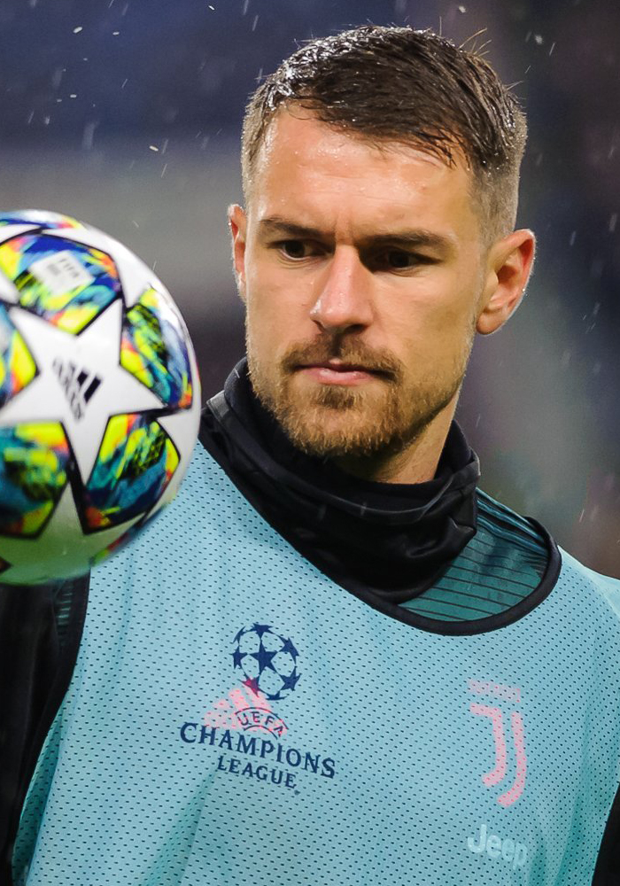 Welsh association football player Aaron Ramsey on 6 November 2019, during the 2019/20 UEFA Champions League group stage match between Juventus and Lokomotiv in Moscow.